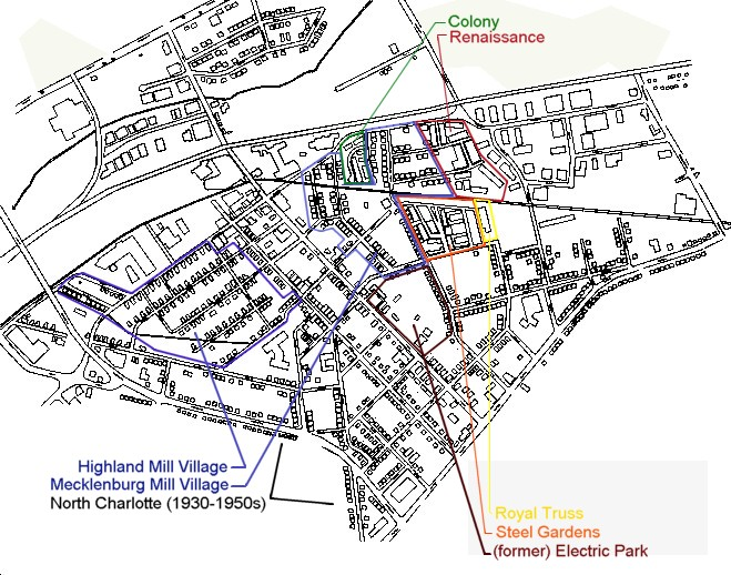 map showing the different parts of NoDa